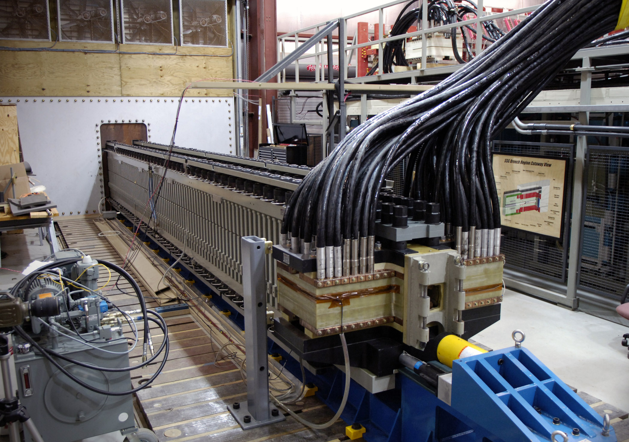 DAHLGREN, Va. (Nov. 28, 2007) The Office of Naval Research 32 MJ (megajoules) Electromagnetic Railgun (EMRG) laboratory launcher, located on board the Naval Surface Warfare Center Dahlgren Division, is operational and preparing to set the world record for the highest muzzle energy launch of a projectile 10 MJ. When operational, the rail gun will fire projectiles at ranges in excess of 200 nautical miles. U.S. Navy photo by John F. Williams (Released)